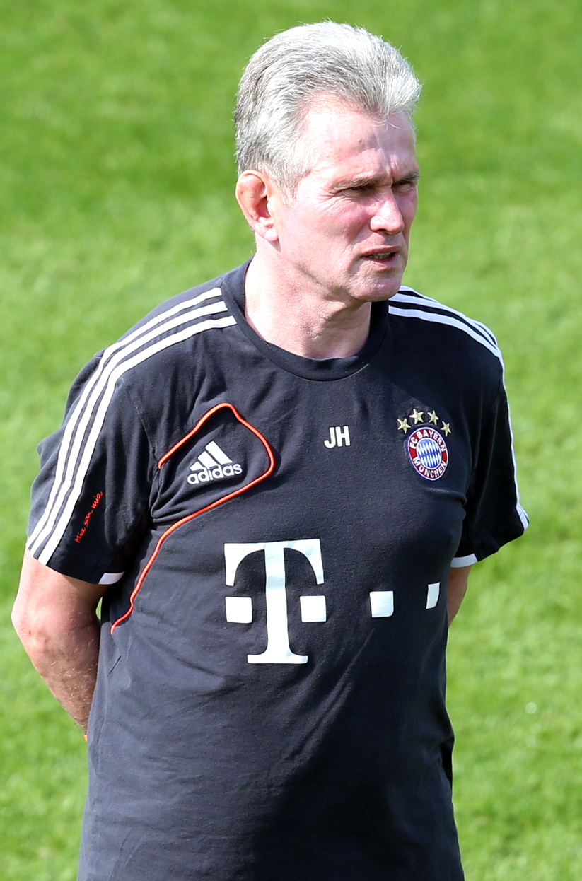 German club Bayern Munich's coach Jupp Heynckes during his team's training session at the ASPIRE Academy in Doha.